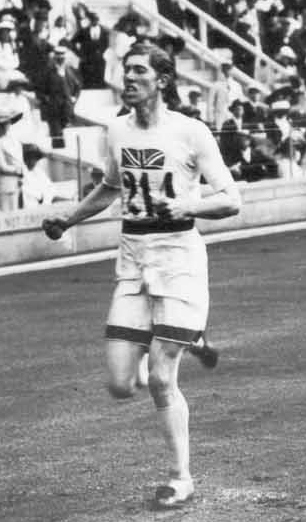 The finish of the men's 1500 metre final at the 1912 Summer Olympics with the winner Arnold Jackson setting a new Olympic record.